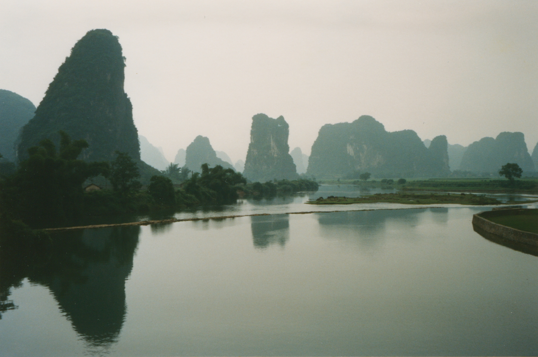 Yangshuo, view in the other direction Yangshuo is a county and town in Guilin, Guangxi Province, China. The town borders the Li River on one side, and is situated on a small plain between a number of karst peaks. (From Wikipedia